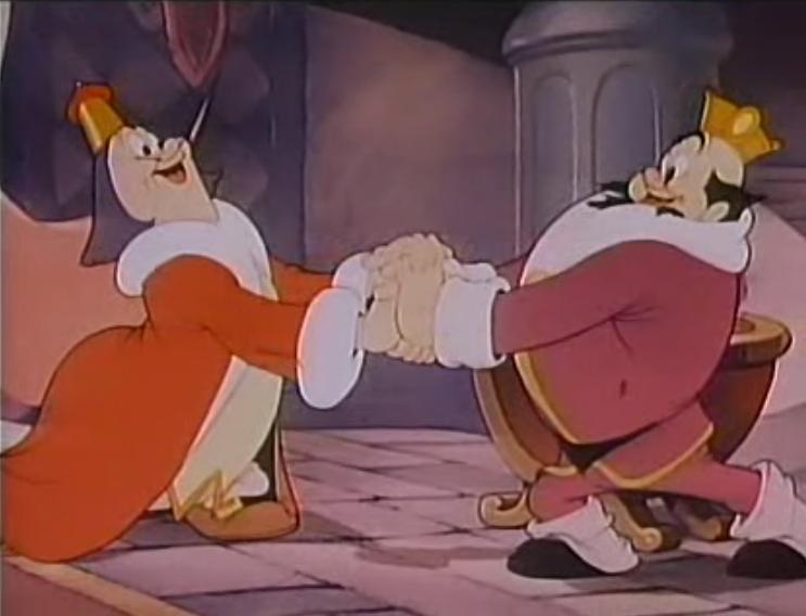 King Little and King Bombo From "Gulliver's Travels" (1939)